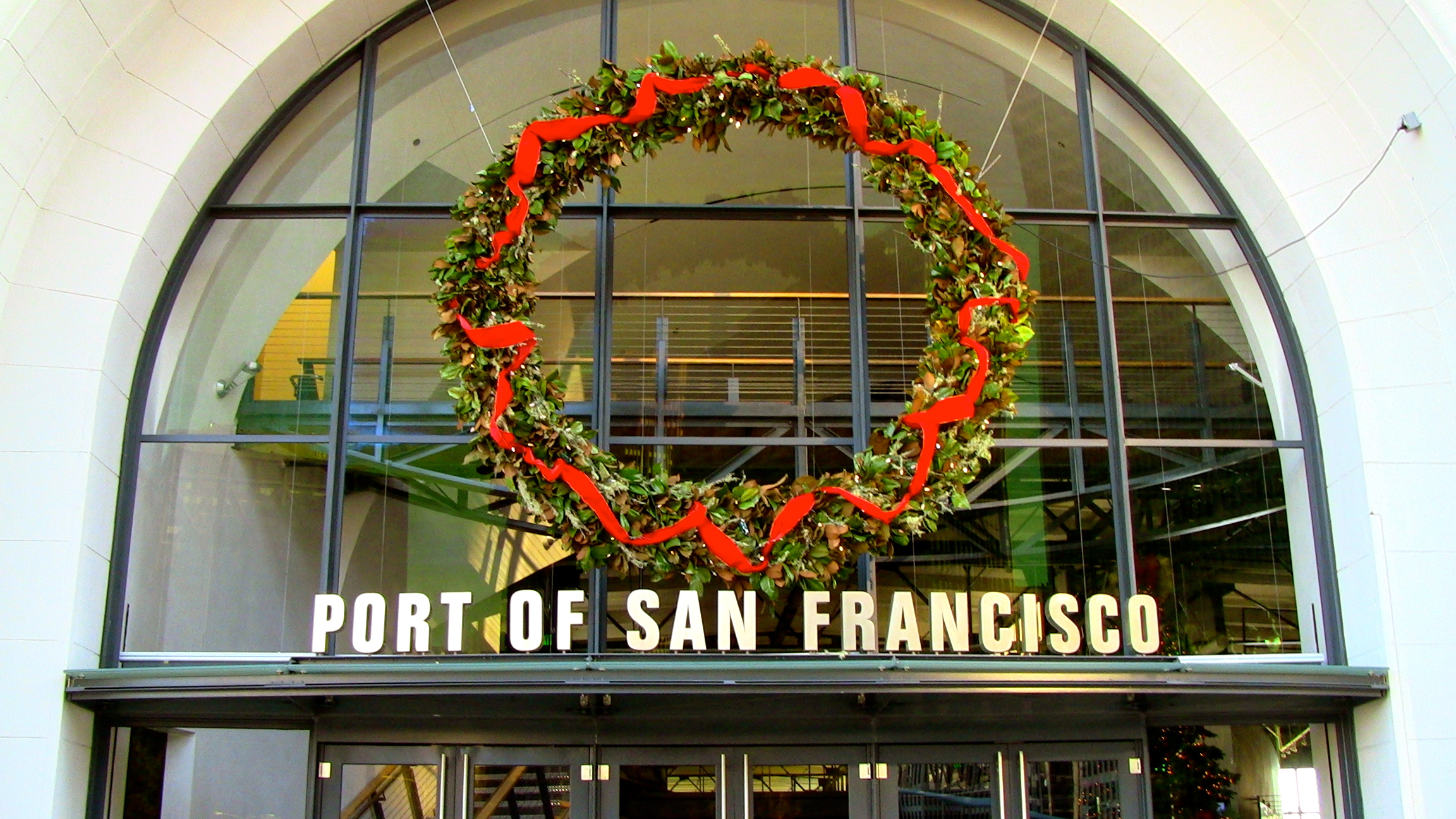 A holiday wreath at the main gate - 5 December, 2011